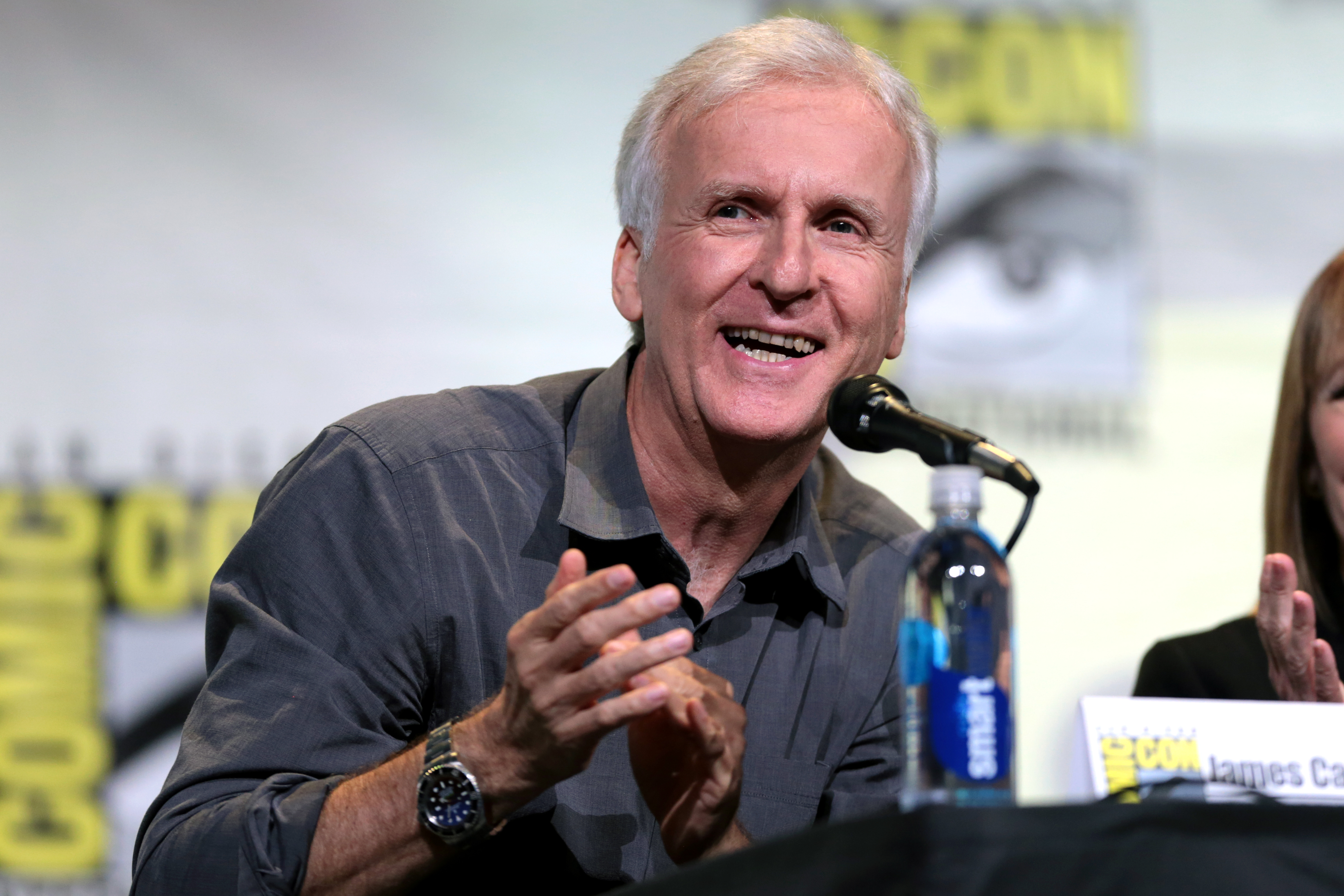 James Cameron speaking at the 2016 San Diego Comic Con International, for "Aliens: 30th Anniversary", at the San Diego Convention Center in San Diego, California.